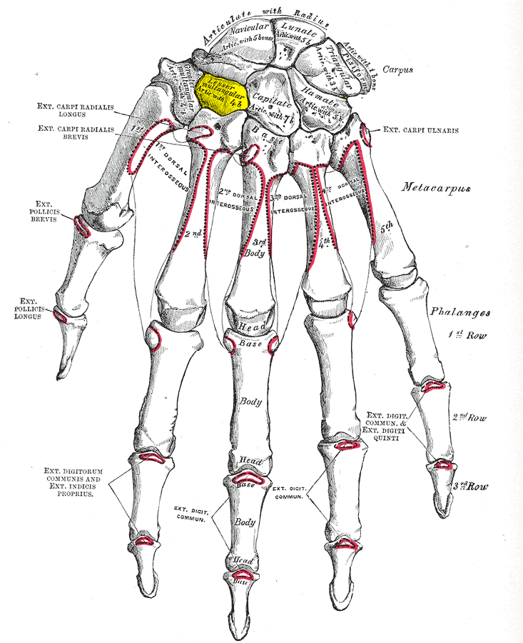 Bones of the left hand. Dorsal surface.